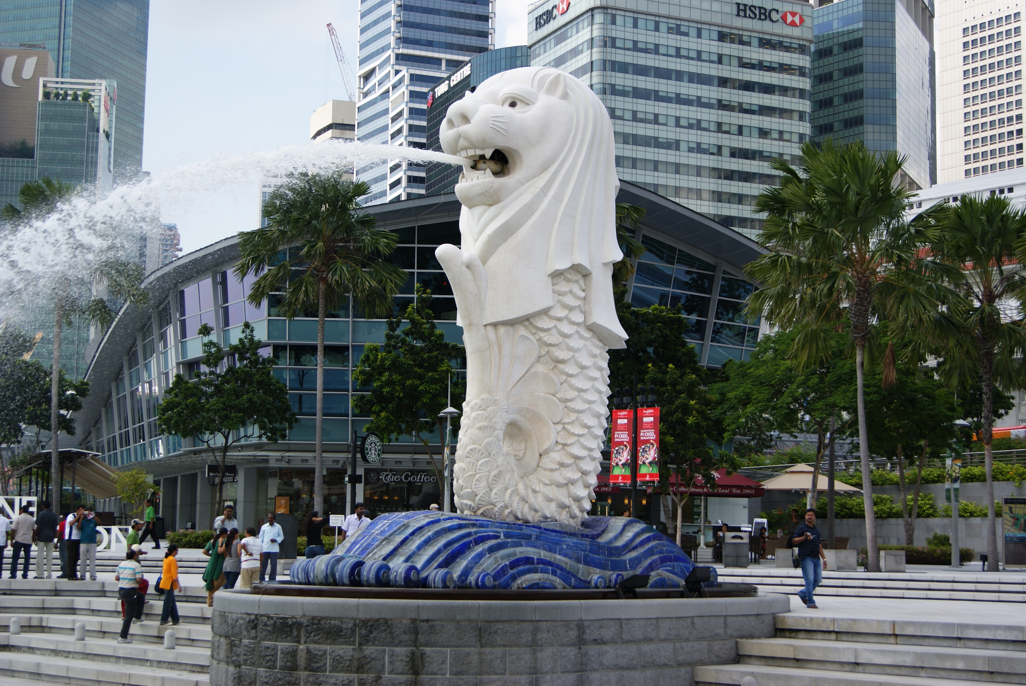 Closeup of the Merlion statue in Merlion Park.